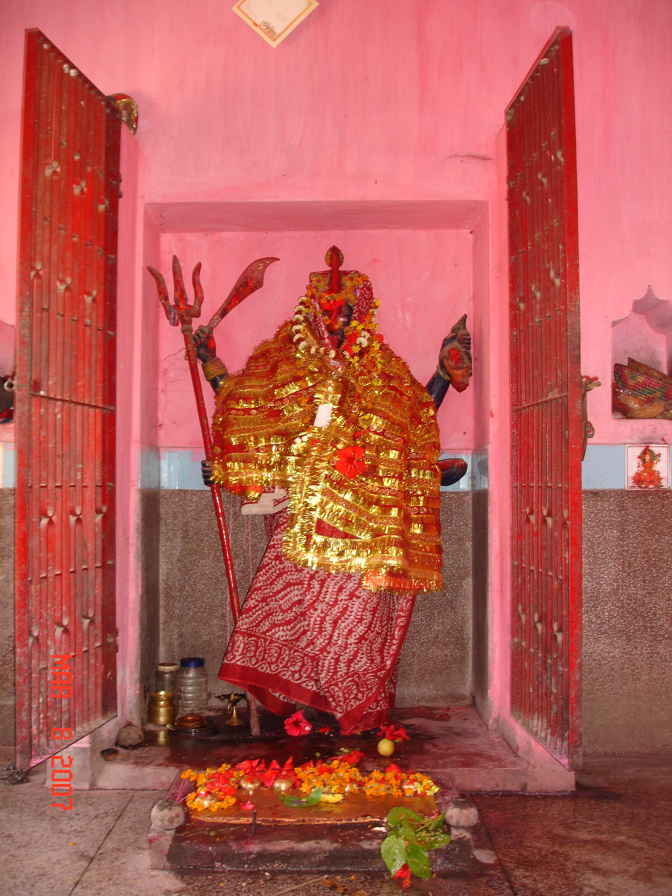 This temple in famous landmark in bastipur village and surrounding area. The Kali Mandir in Bastipur, Bihar, India